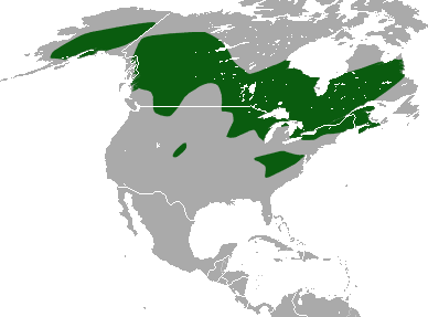 American Pygmy Shrew (Sorex hoyi) range, with national borders added